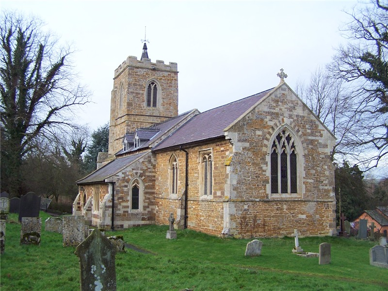 Allexton parish church taken by kev747